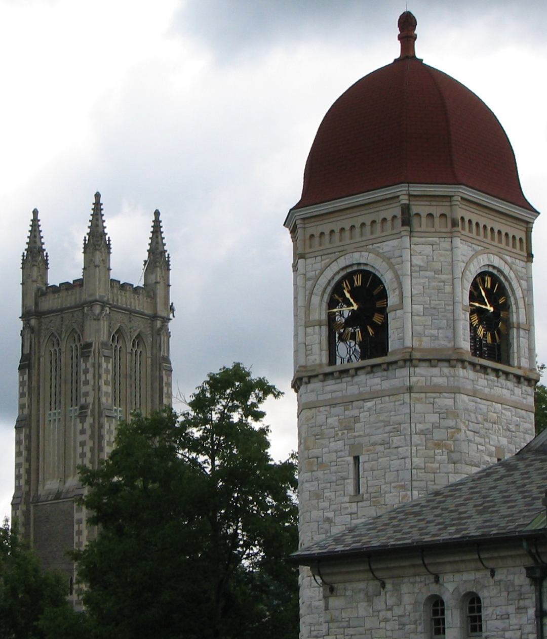 Lasell Bell Tower and Thompson Chapel, Williams College - Williamstown, MA